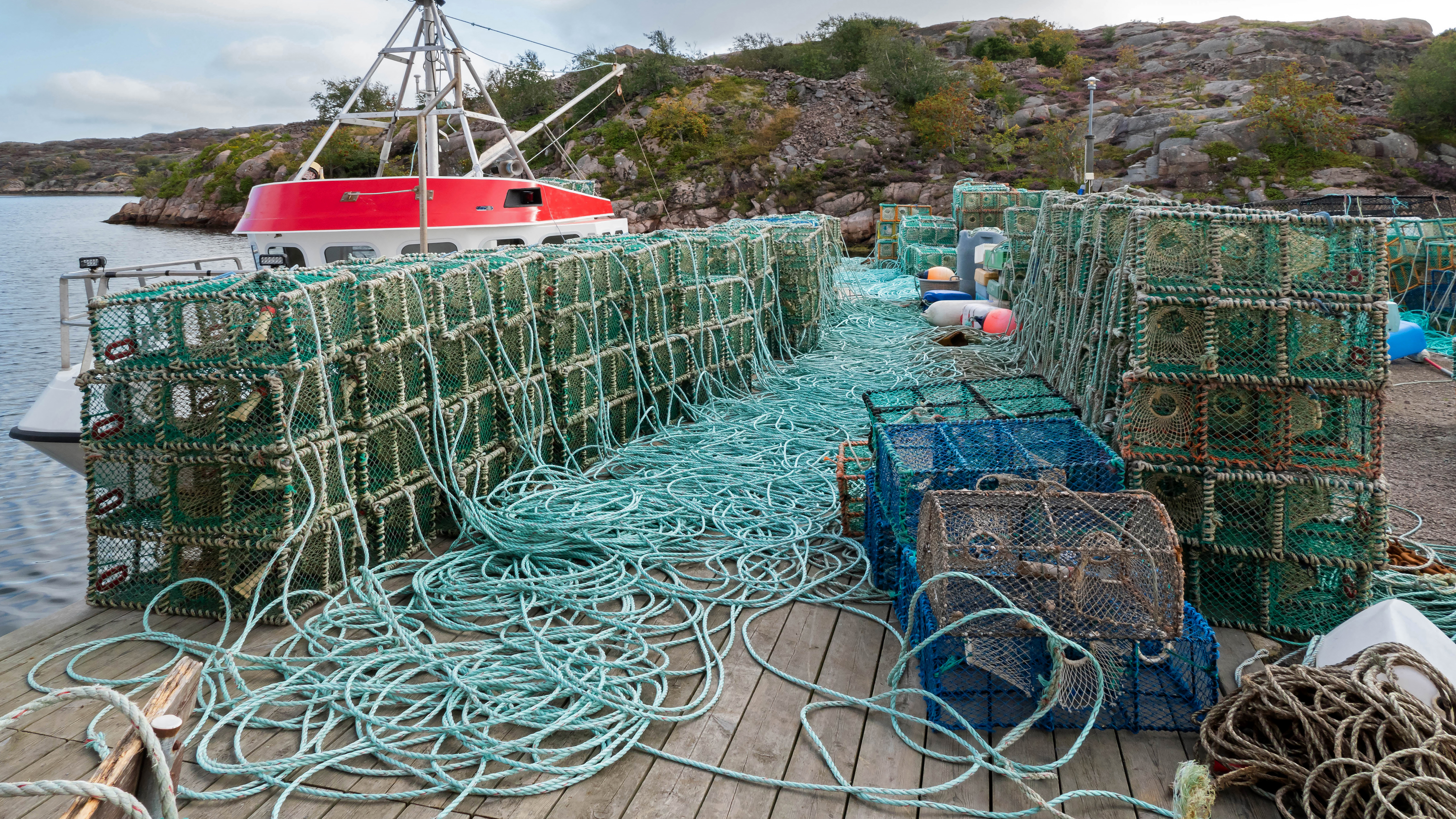 Stacks of lobster traps, also used for catching Norway lobsters (Nephrops norvegicus) on the fishing dock in Norra Grundsund, Lysekil Municipality, Sweden.